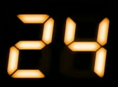 24 Logo